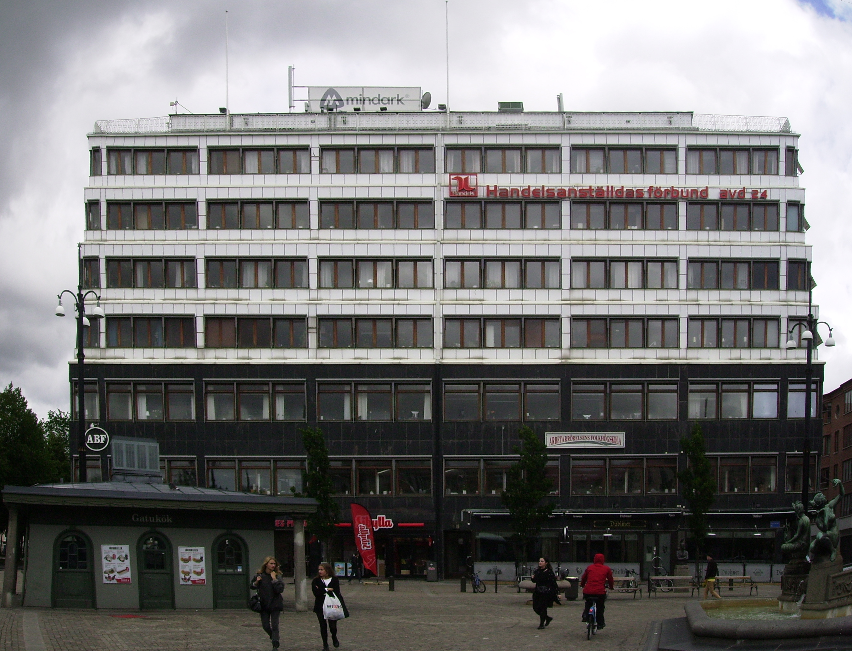 Picture of Arbetarrörelsens folkhögskola in Gothenburg